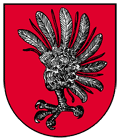 Zbraslavice CoA